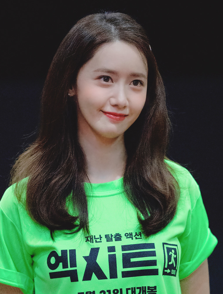 Im Yoon-ah at Exit Stage Greeting on August 3, 2019.